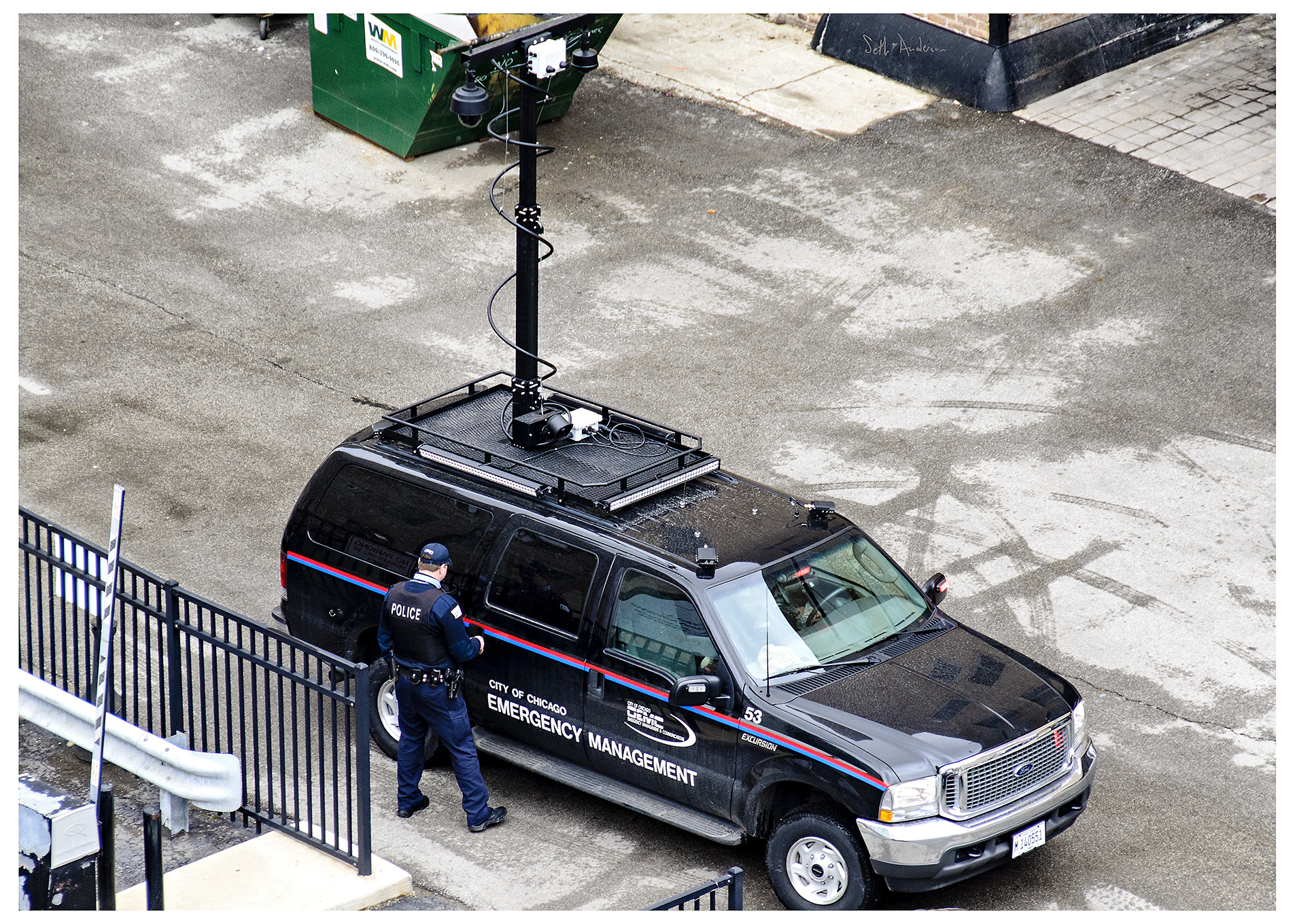 City of Chicago Emergency Management Surveillance Vehicle